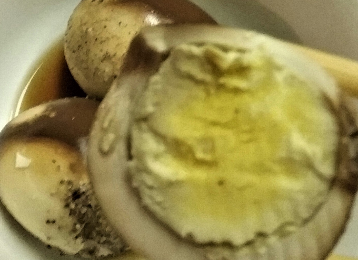 A dish of Marble Tea Eggs